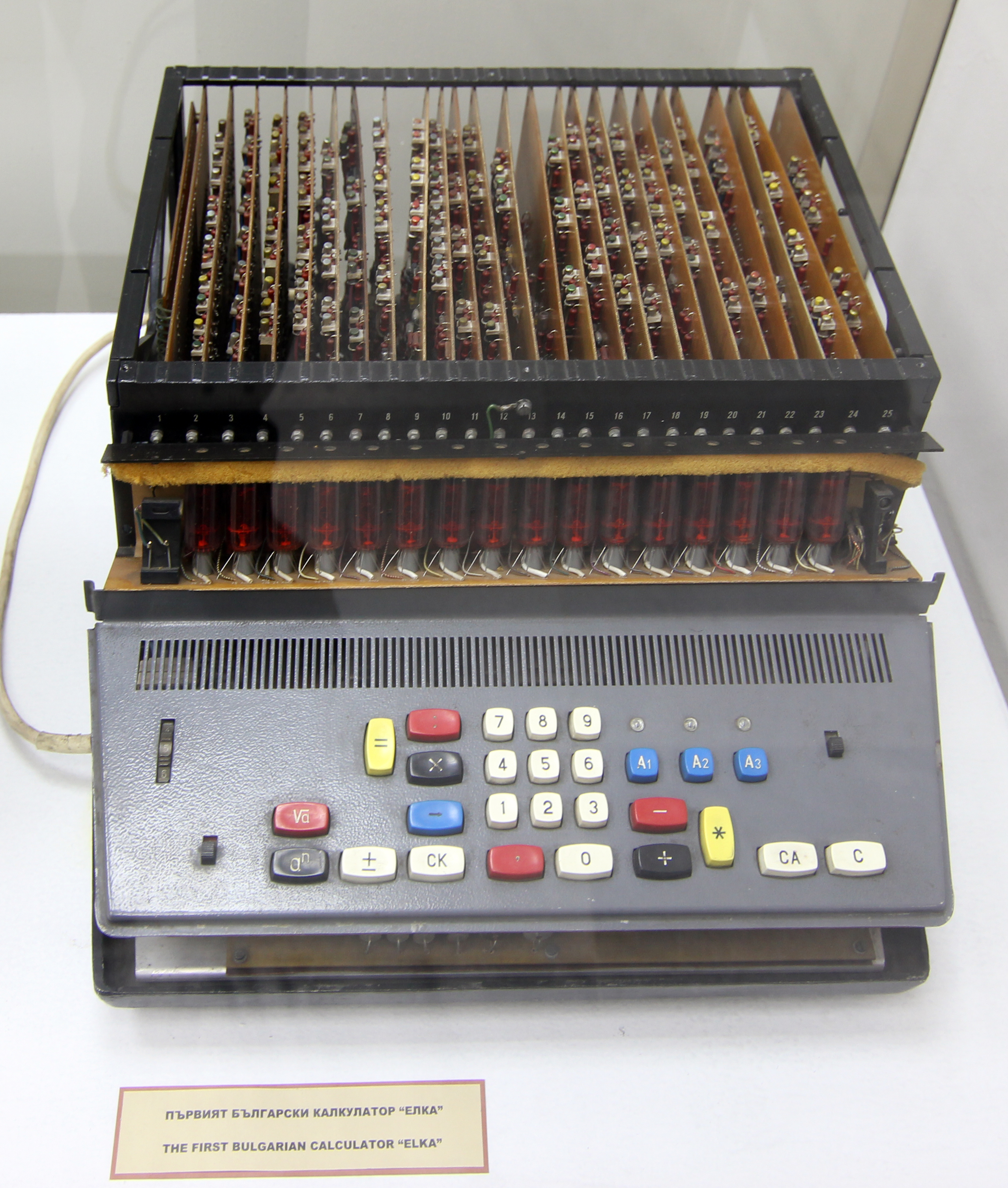 The first calculator Elka 6521, designed in Bulgaria in 1965 and produced since 1967, fourth in the world and first including square root function